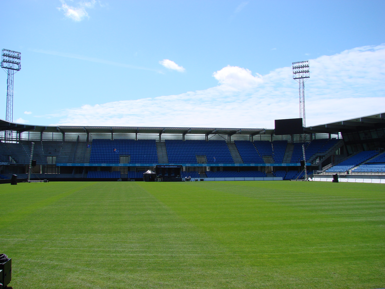 im Stadion